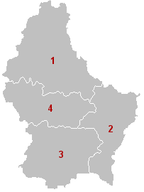 Map of Luxembourg depicting the districts of Luxembourg as they were between 1857 and 1867. The districts are as numbered: Diekirch Grevenmacher Luxembourg Mersch